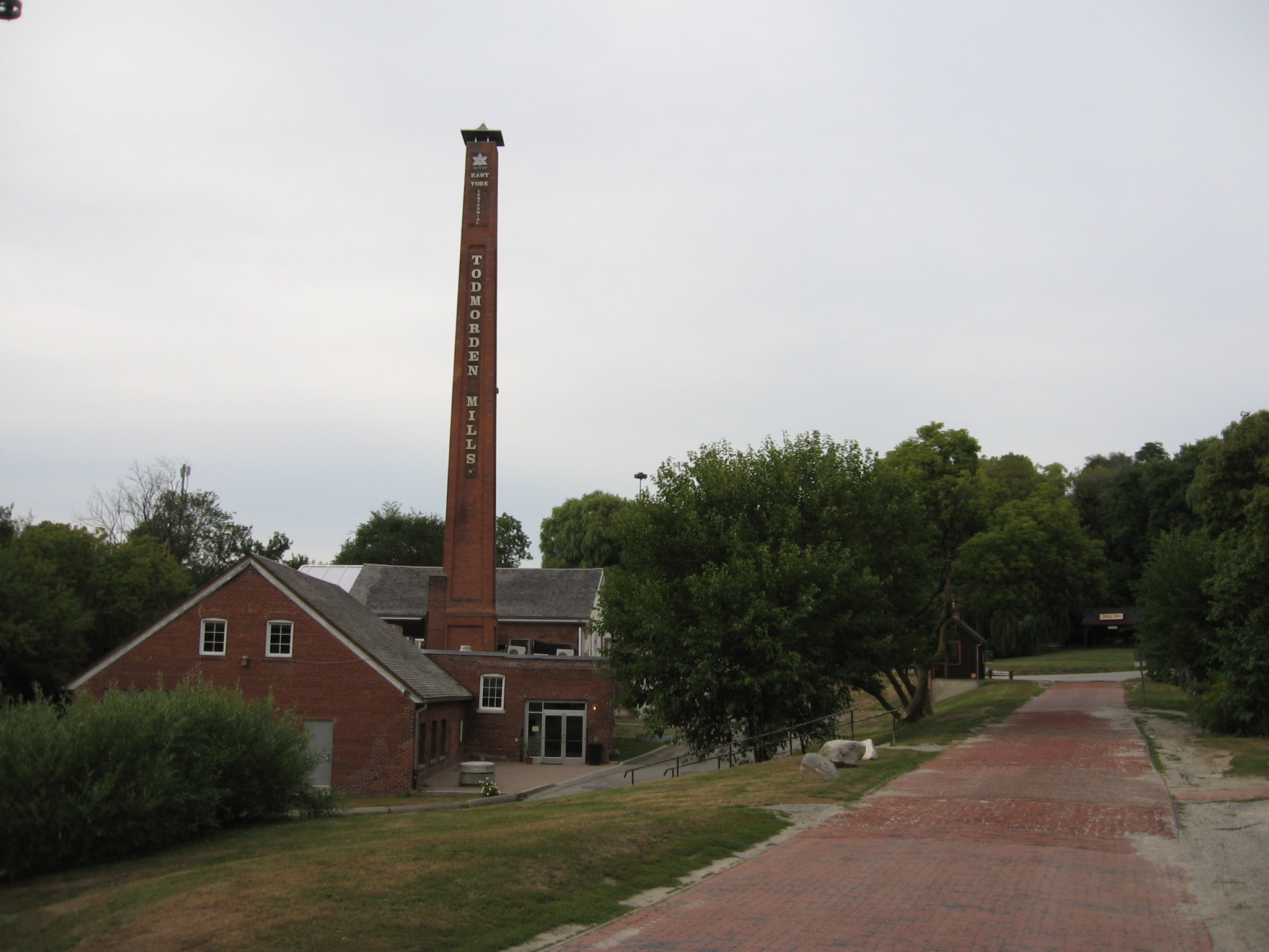 Restored Todmorden Mills paper mill. Now used as an art gallery and theatre.